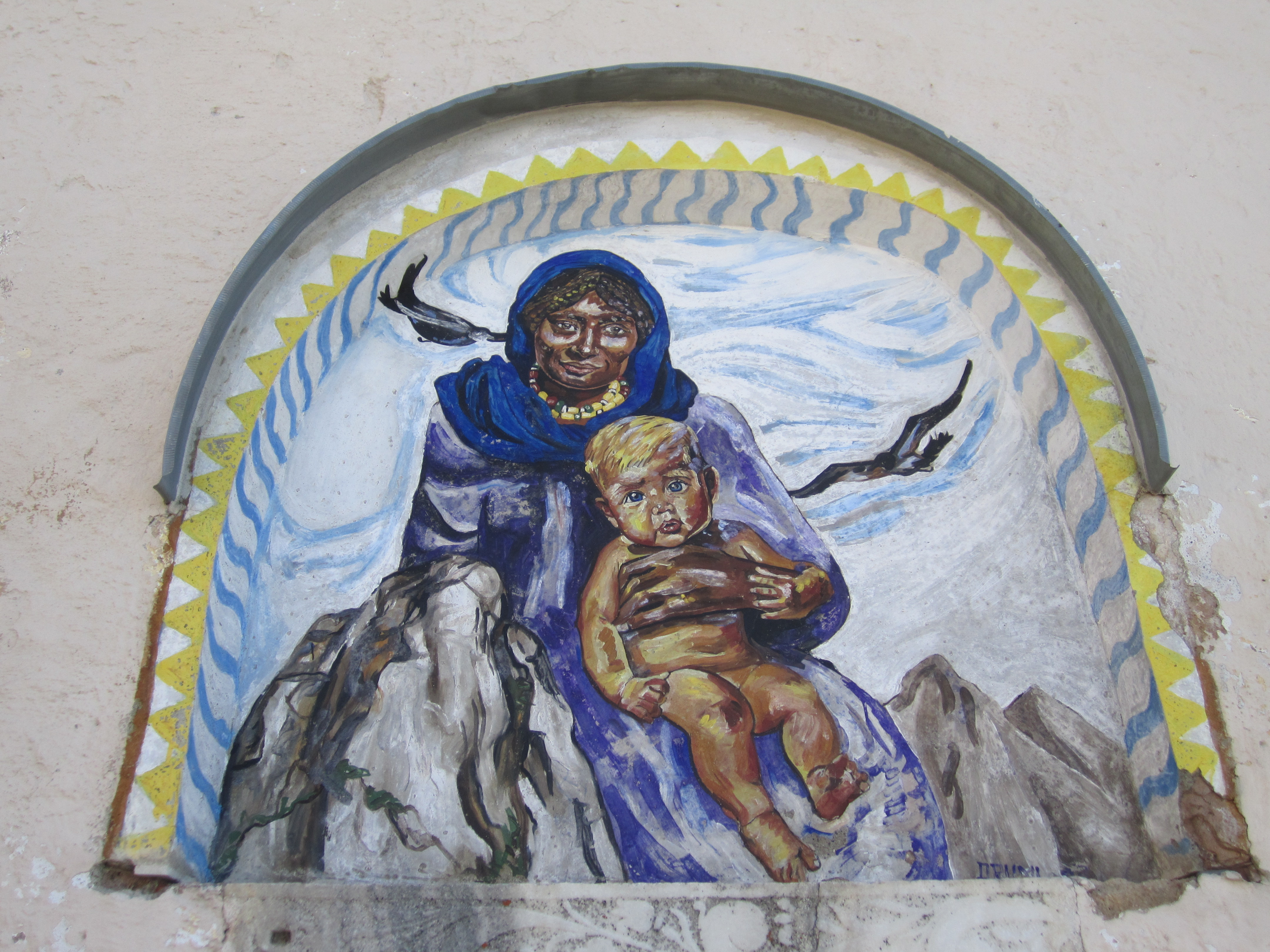 Slovenian Church on Dobrač/Dobratsch mountain, Mural by Helga Druml